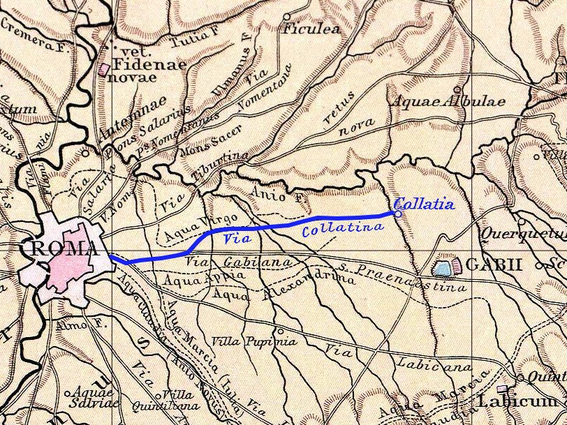 Ancient roman Collatinaway (blue color). The path was from Rome to Collatia